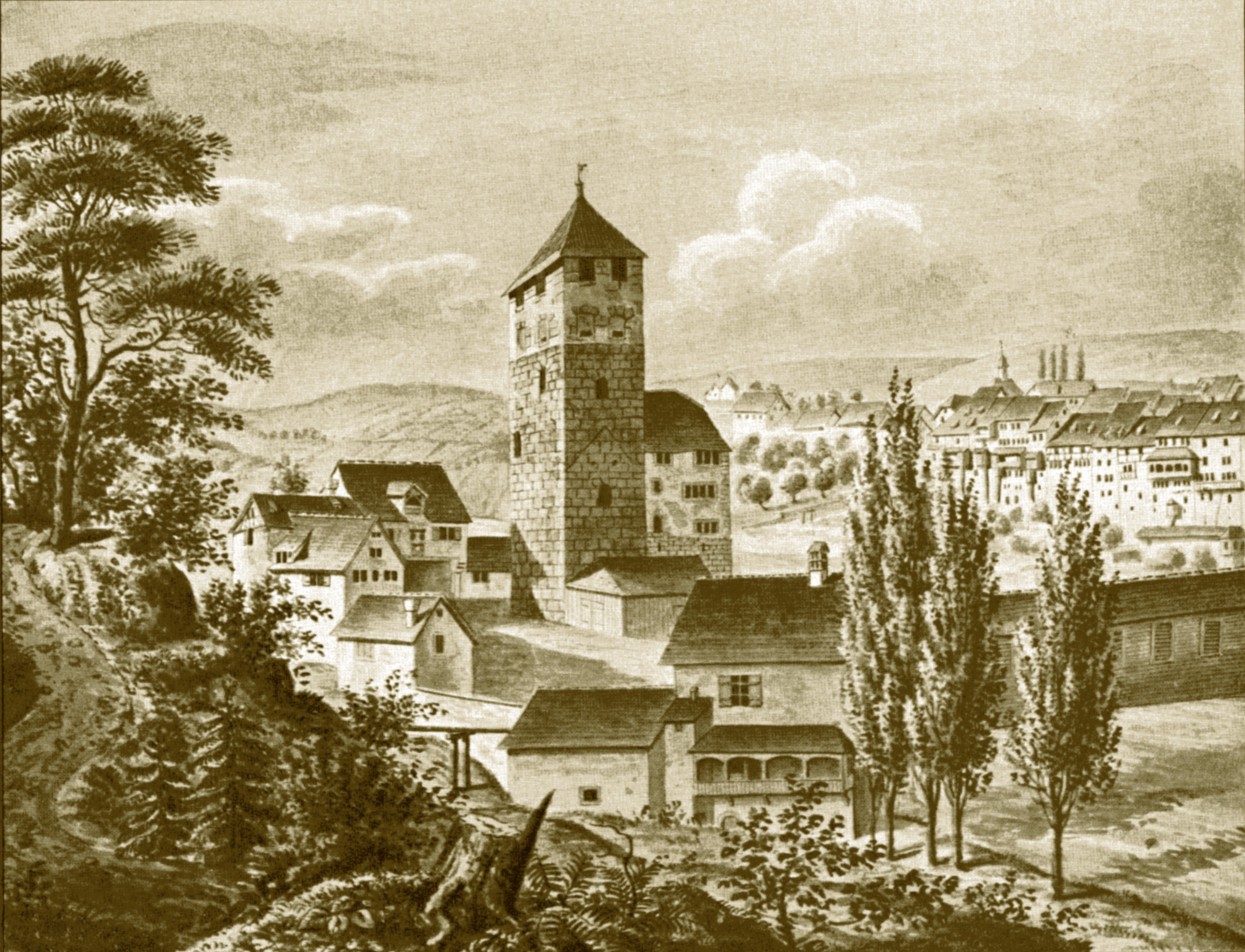 Castle of Eglisau 1840